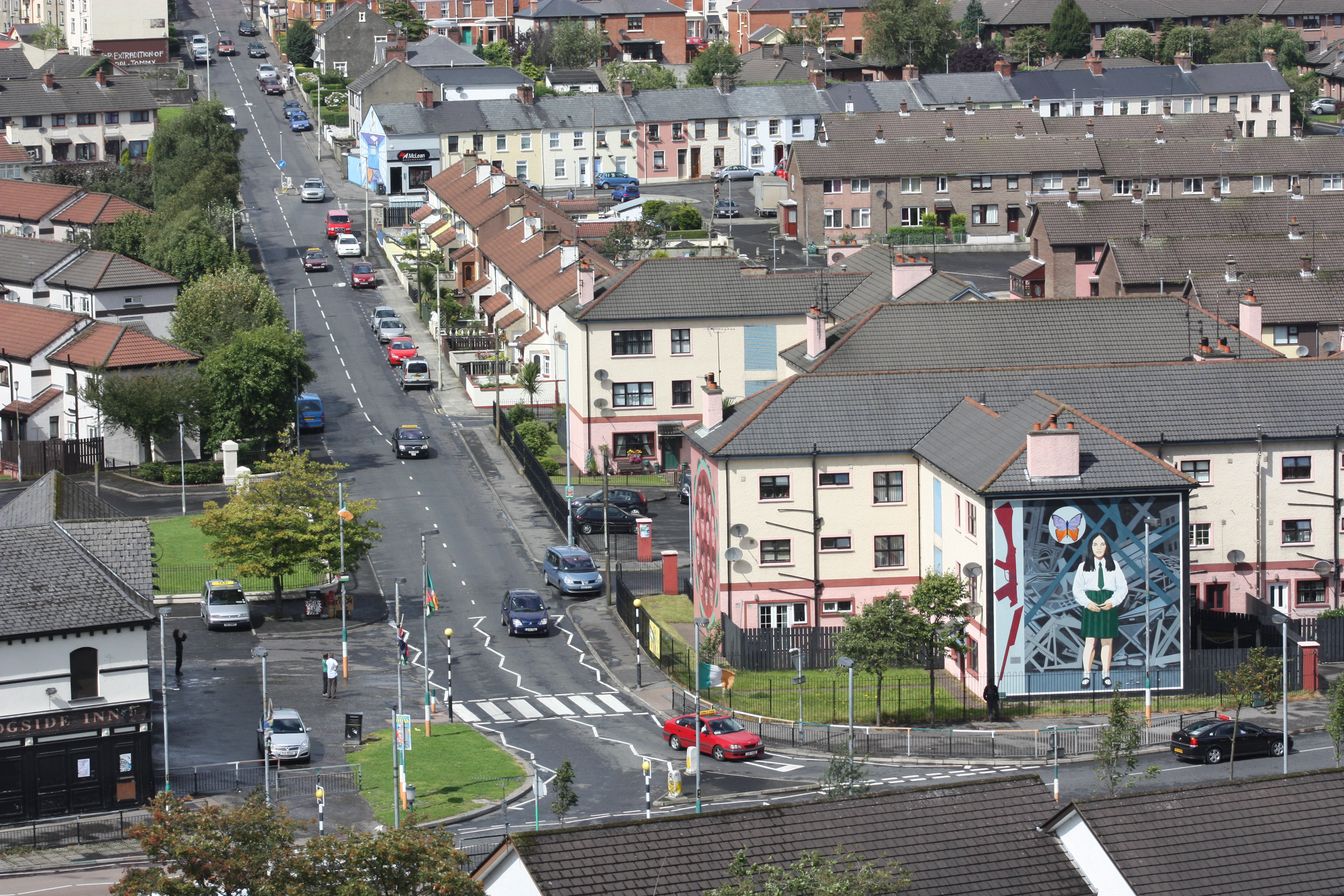 Westland Street and Bogside mural, Derry, County Londonderry, Northern Ireland, August 2009 (viewed from the Walls of Derry)